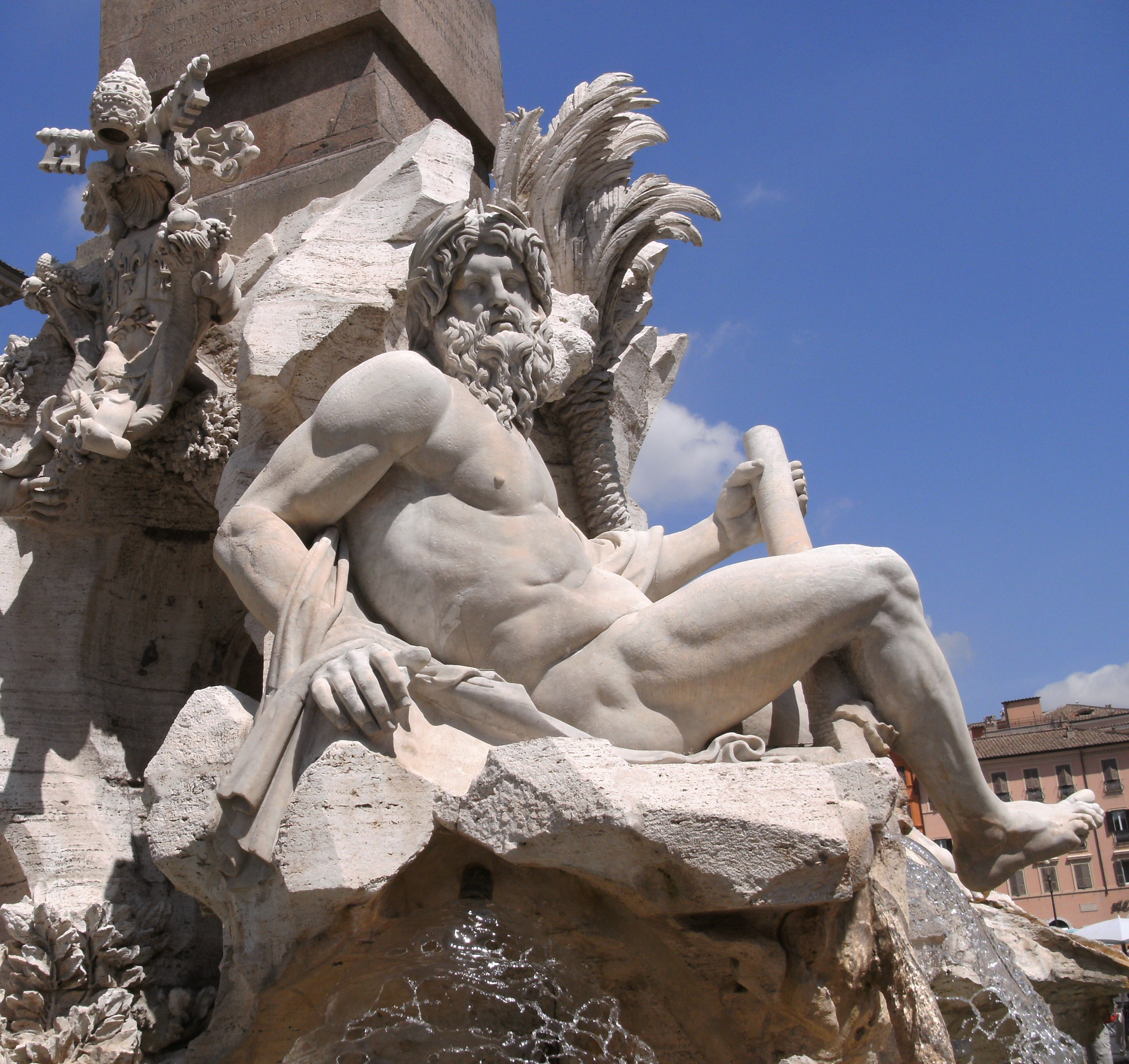 Santana deli Squattest Fermium - Ganges e